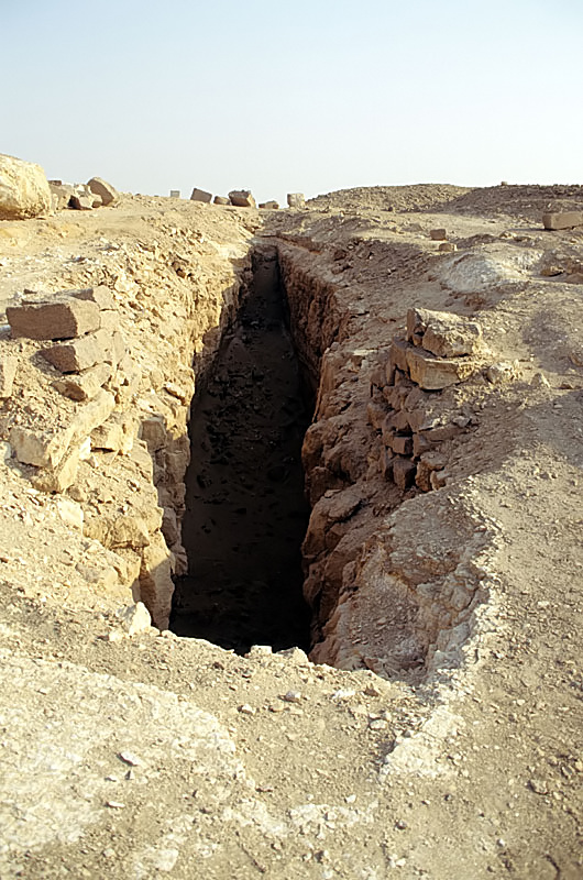 Boat pit, Abu Rawash, Egypt